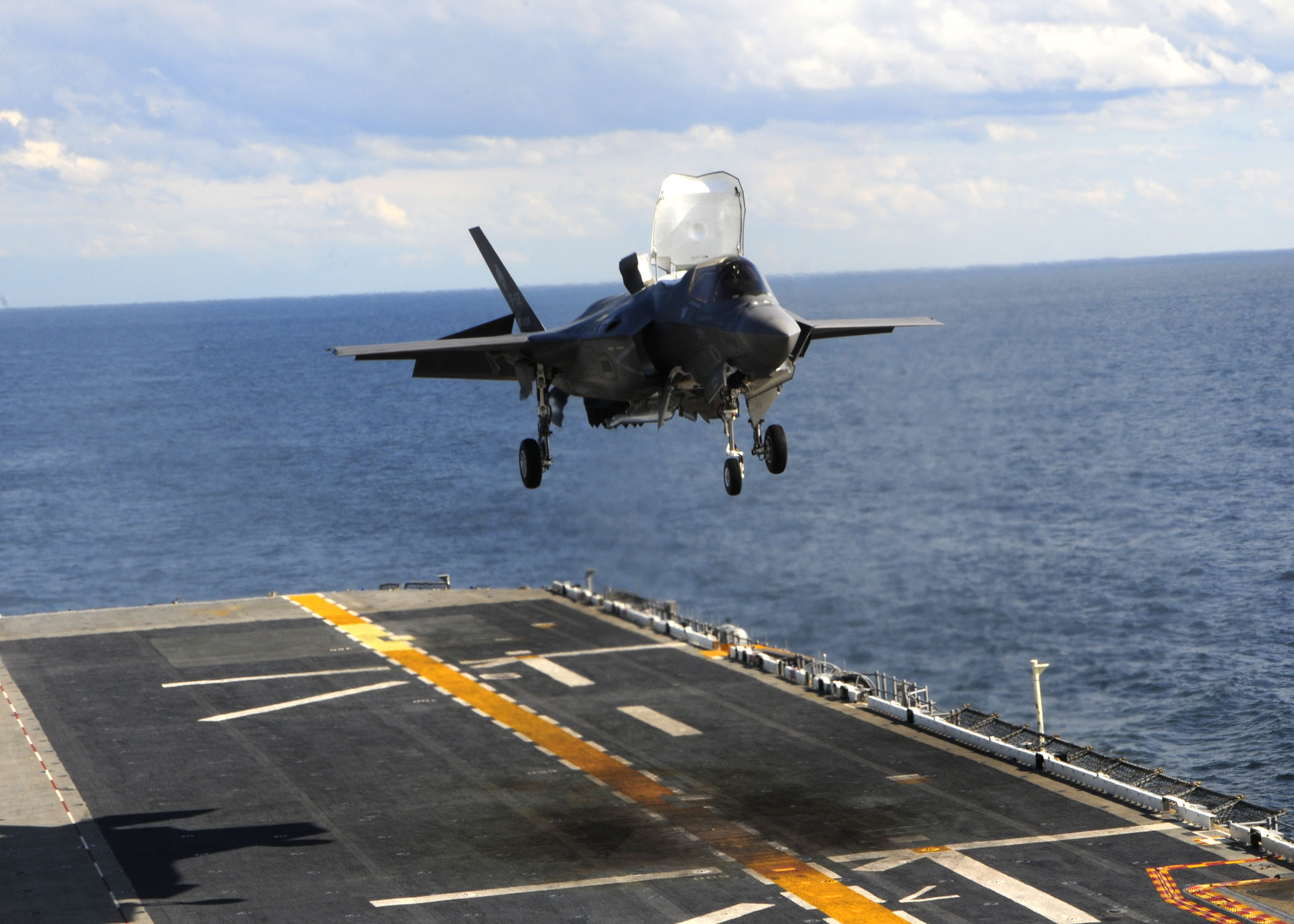 ATLANTIC OCEAN (Oct. 3, 2011) An F-35B Lightning II makes the first vertical landing on a flight deck at sea aboard the amphibious assault ship USS Wasp (LHD 1). The F-35B is the Marine Corps Joint Strike Force variant of the Joint Strike Fighter and is designed for short takeoff and vertical landing on Navy amphibious ships. (U.S. Navy photo by Mass Communication Seaman Natasha R. Chalk/Released)